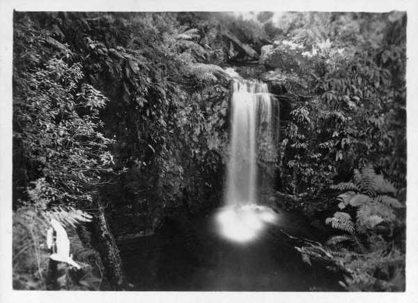 Marriner’s Falls, Apollo Bay, 1935